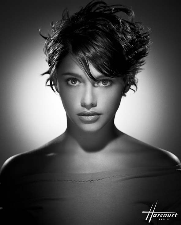 Emma de Caunes photographed by Studio Harcourt Paris